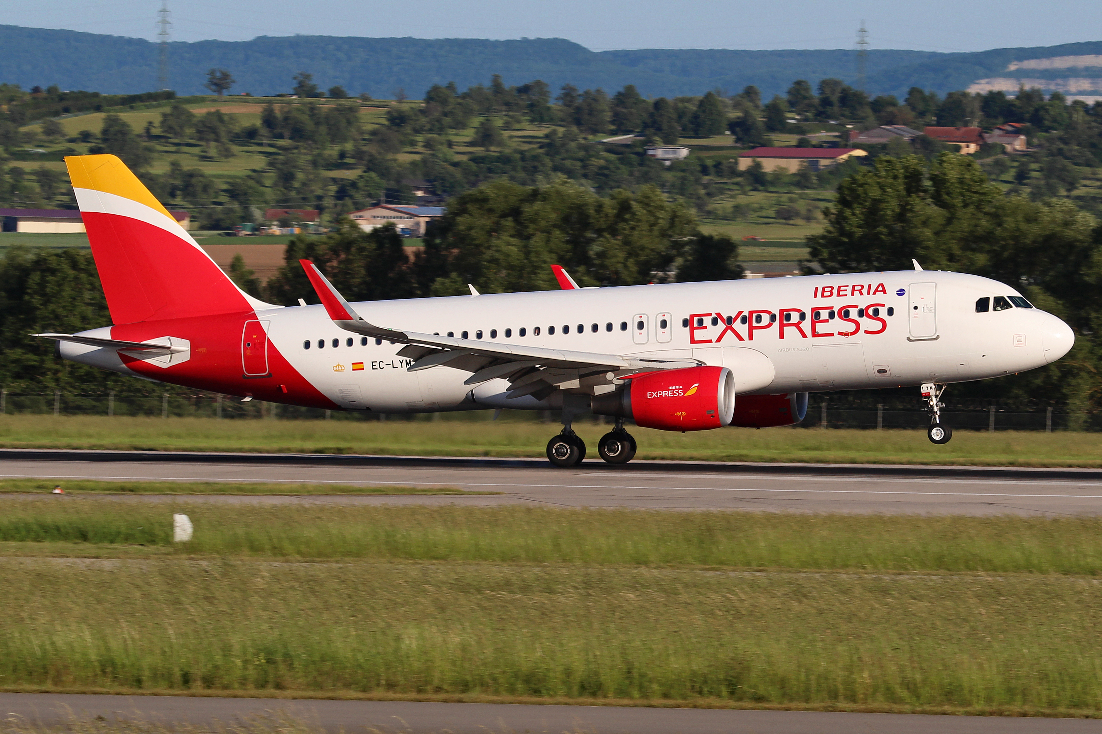 Iberia Express Airbus A320 at Stuttgart Airport.